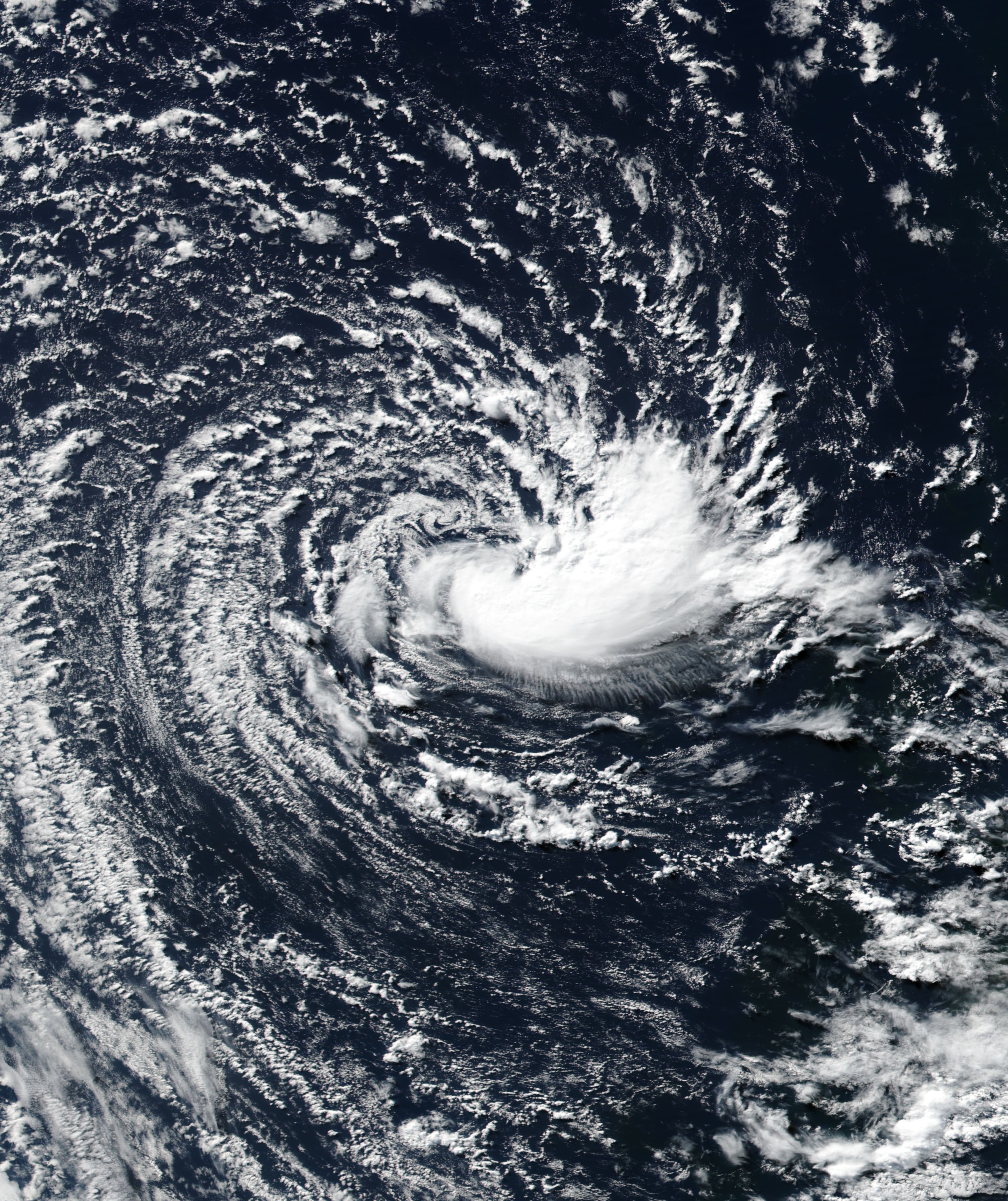 This satellite image from the Suomi-NPP satellite shows what is possibly a rare subtropical depression off the coast of Chile